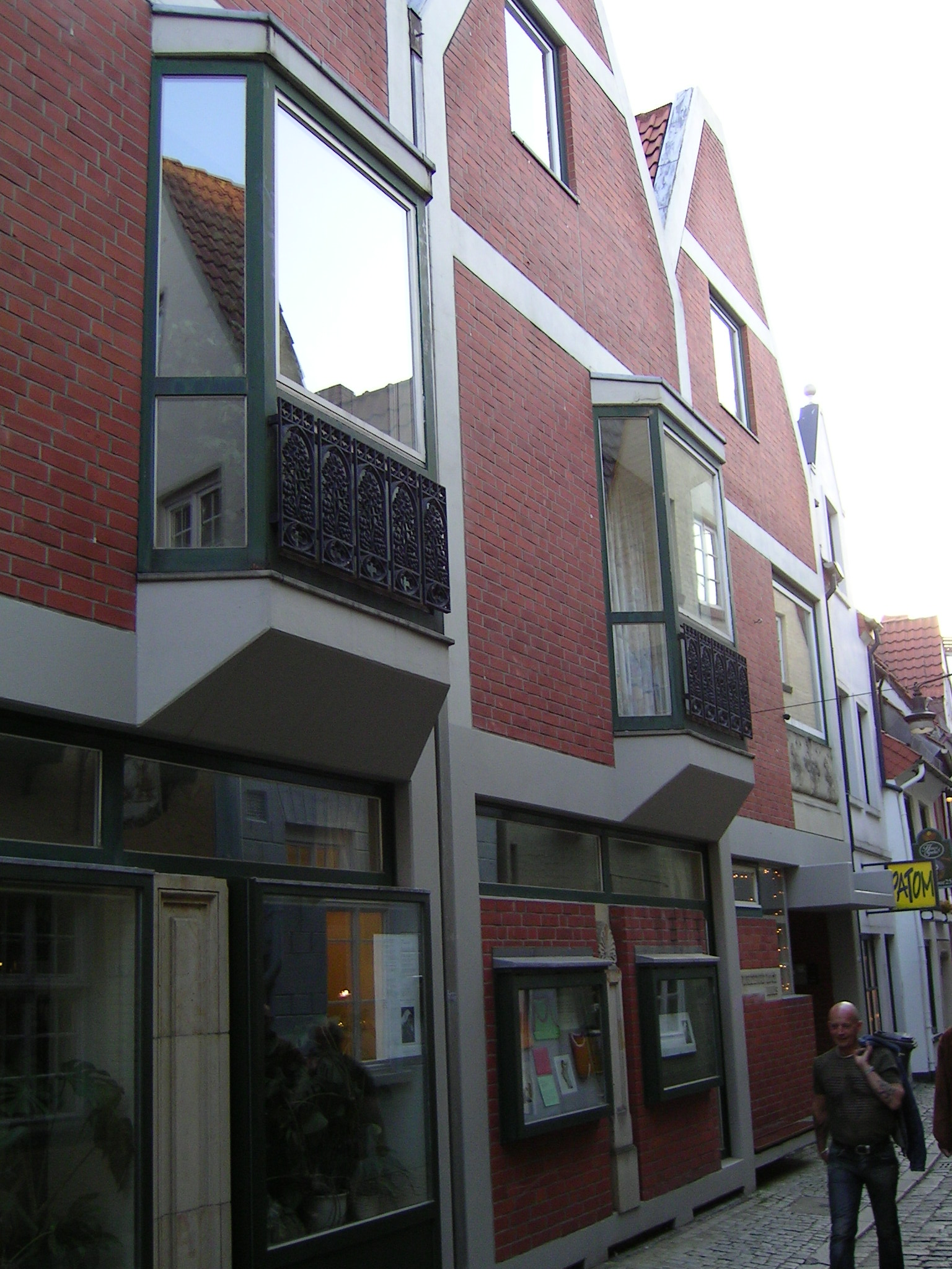 Houses from the 15th and 16th centuries along the narrow alleys in Bremen’s oldest surviving quarter